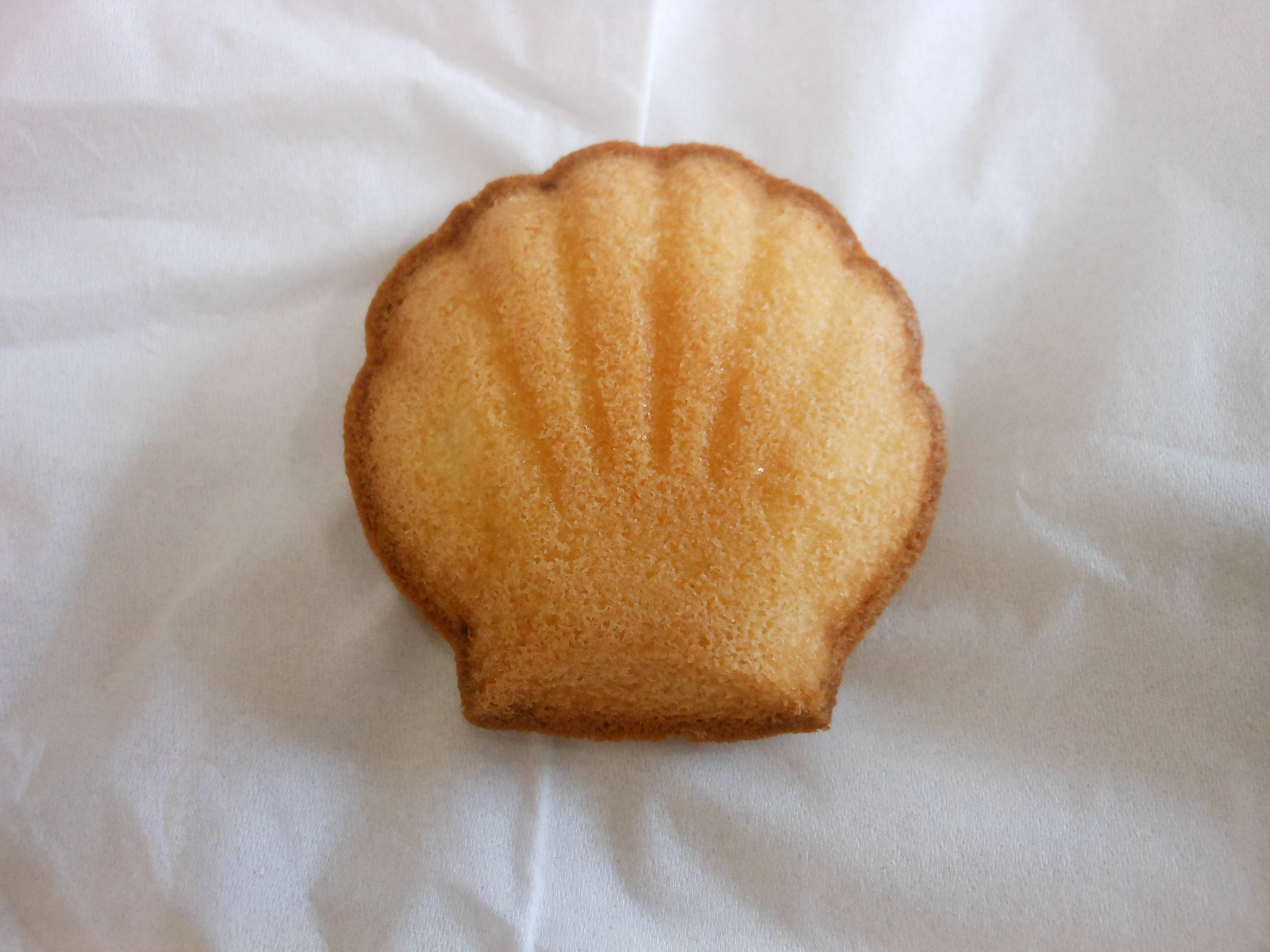 This is a Shell Leines or a pearl oyster shell-shaped madeleine, which was made by Blanca.